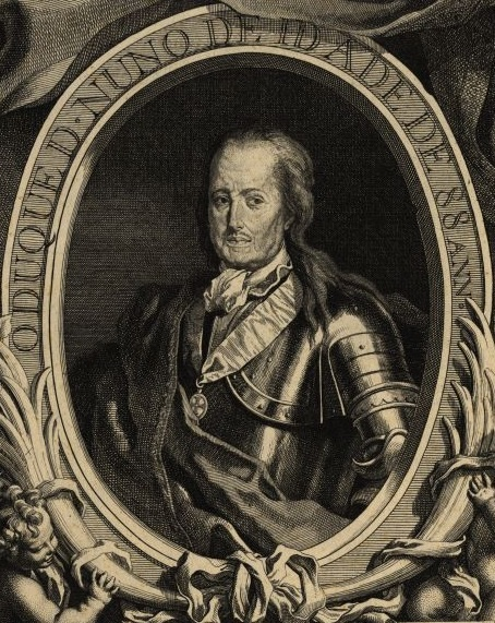 Nuno Álvares Pereira de Melo, 1st Duke of Cadaval, at the Biblioteca Nacional de Portugal